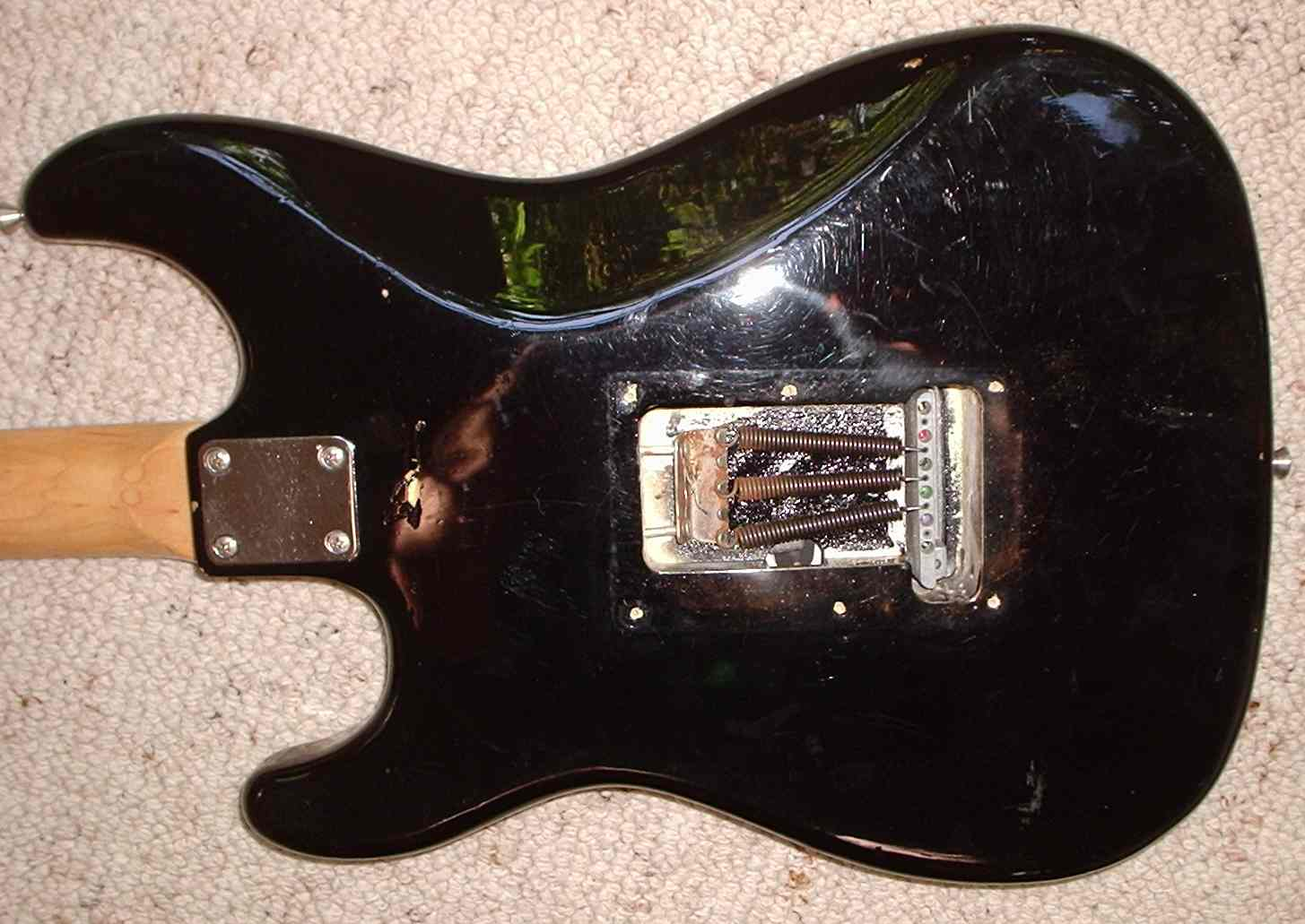 Photo of the back of a stratocaster copy showing the tremolo arm mechanism. See also Image:Strat trem.jpg. This is an original photograph by Andrew Alder, taken on 9 March 2006.